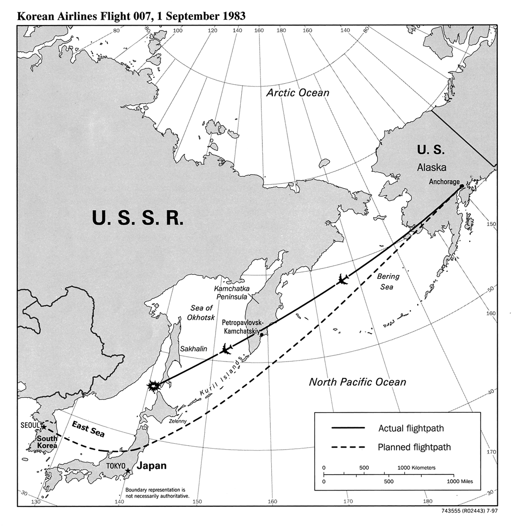 The Korean Airlines Flight 007 flight path, compared to the intended flight path